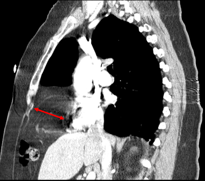 Sagittal CT of the chest with intravenous contrast demonstrates a Morgagni hernia (red arrow) containing abdominal fat.